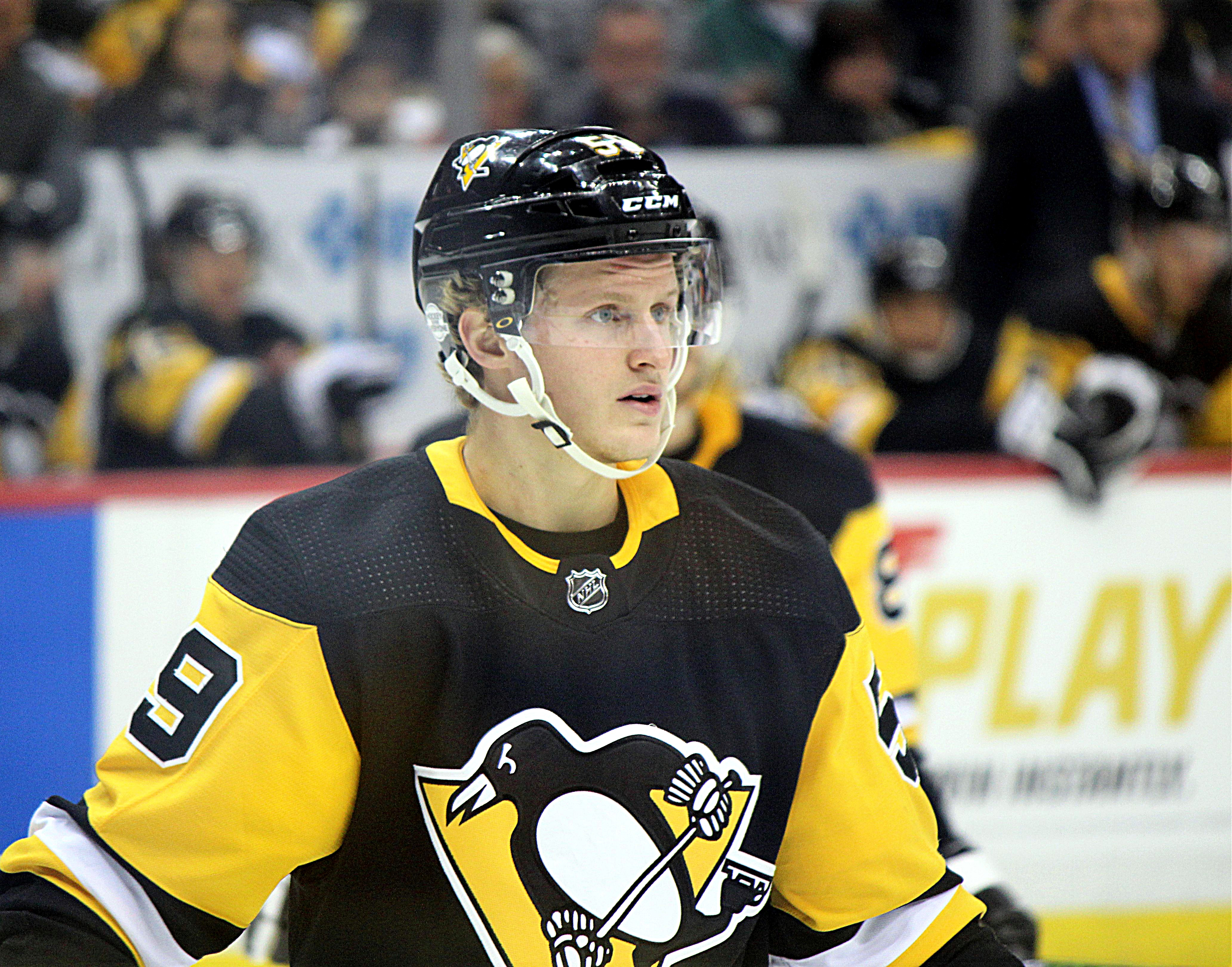 Pittsburgh Penguins forward Jake Guentzel